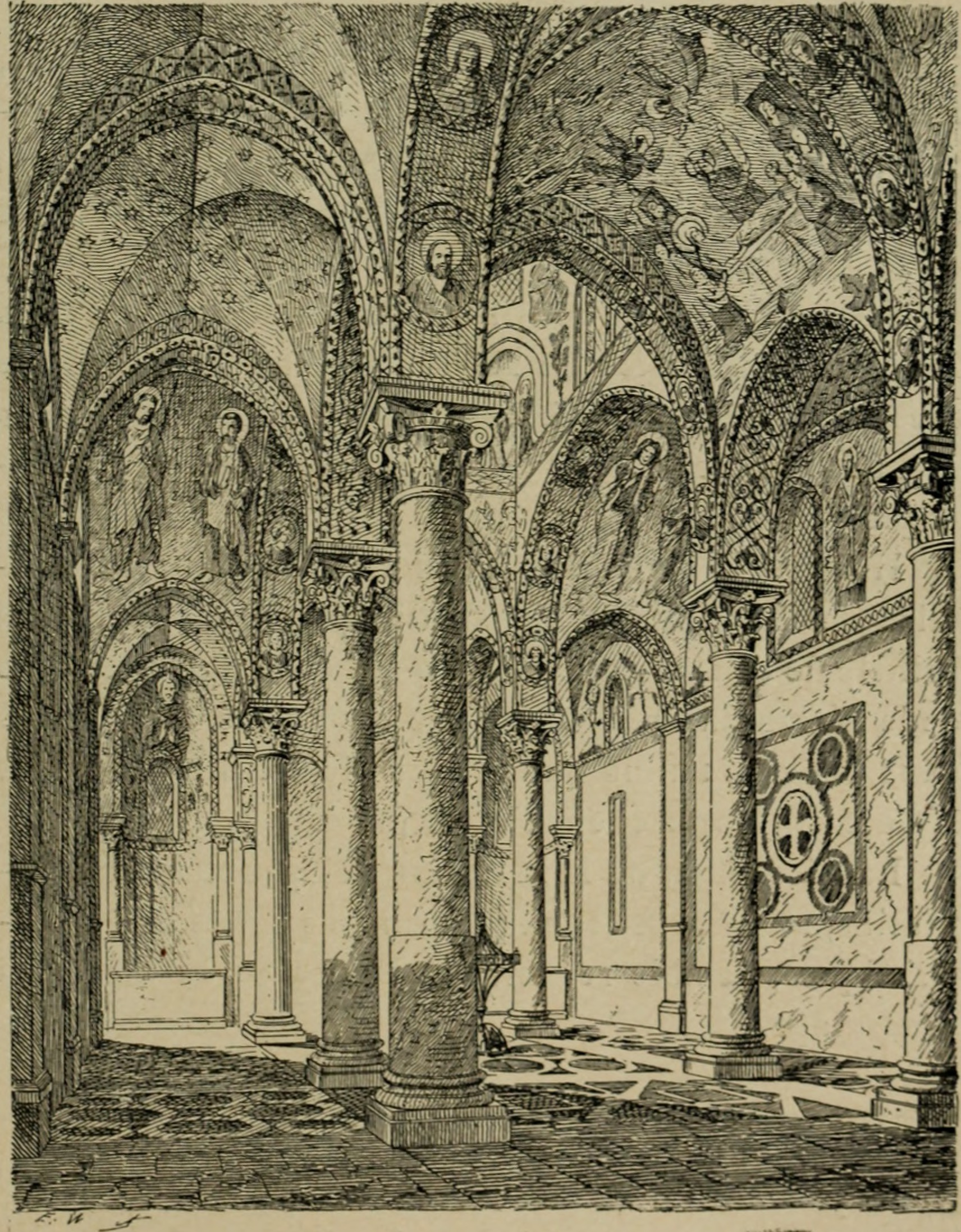 Title: L'architecture romane Year: 1888 (1880s) Authors: Corroyer, Édouard Jules, 1837?-1904 Subjects: Architecture romane Architecture religieuse Publisher: Paris : Quantin Text Appearing Before Image: FIG. 89. — ÉGLISE DE LA MARTORANA, A PALERME (sICILE).(Coupe longitudinale.) qu'elle est une innovation et que le mode de construction rationnelle est beaucoup plus simple et moins coûteux que celui des coupoles. Et enfin, parce quelle est une des premières applications en France de la tour-lanterne ^sélevant au-dessus I. Voir i* partie,, chap. v. ORIGINES DE L'ARCHITECTURE ROMANE. 145 de l'autel principal sur la croisée formée par la nef, les Text Appearing After Image: FIG. 90. ÉGLISE DE LA MARTORANA A PALERME (SICILE).(Vue perspective intérieure.) deux bras du transept et le chœur, suivant un système de construction dont nous avons établi la filiation et